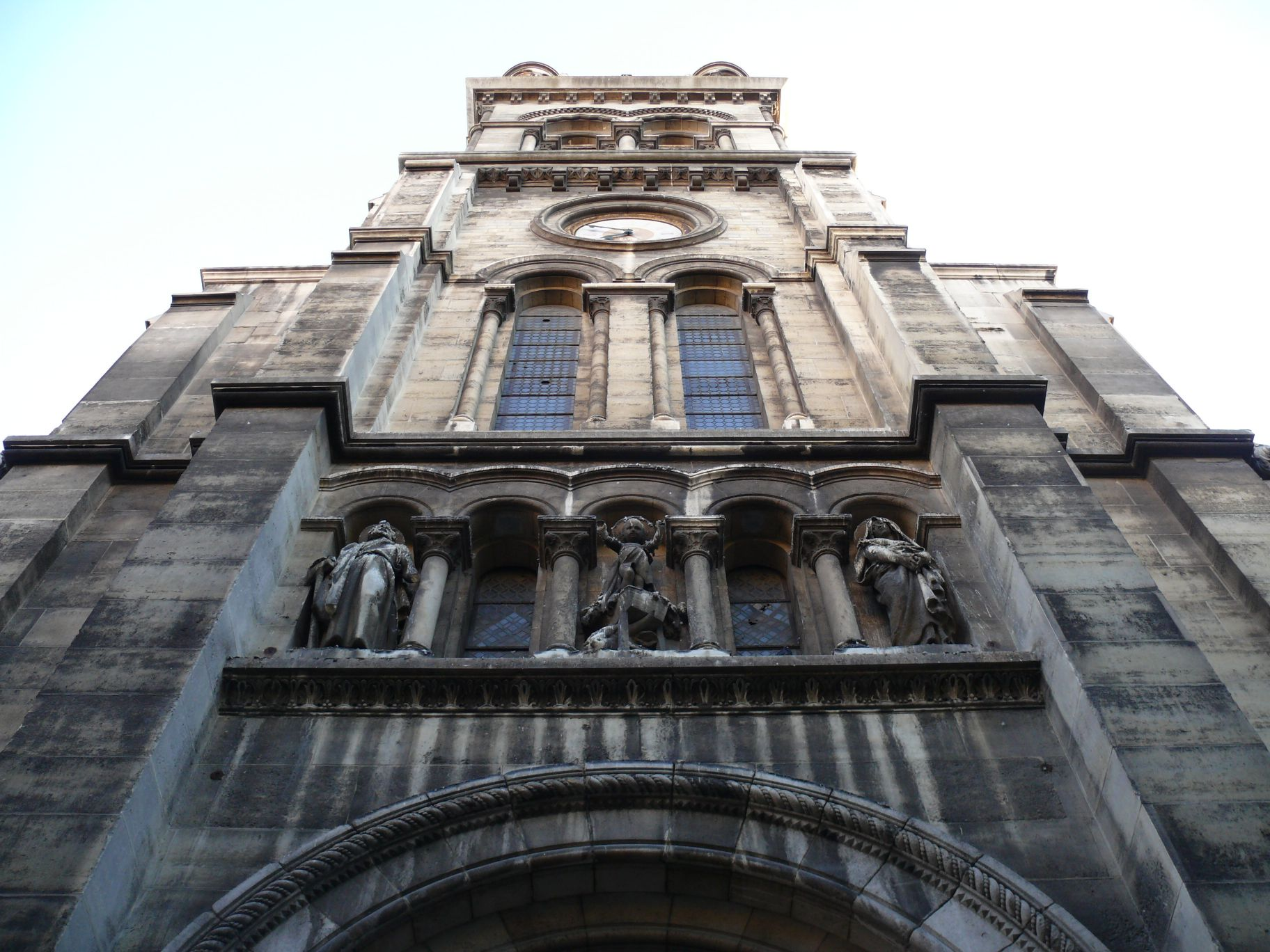 Saint-Joseph-des-Nations' church, in Paris (Paris XI, France).